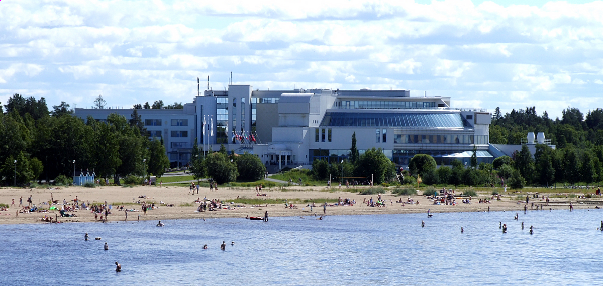 The spa hotel Holiday Club Oulu Eden by the Nallikari beach in Oulu, Finland.